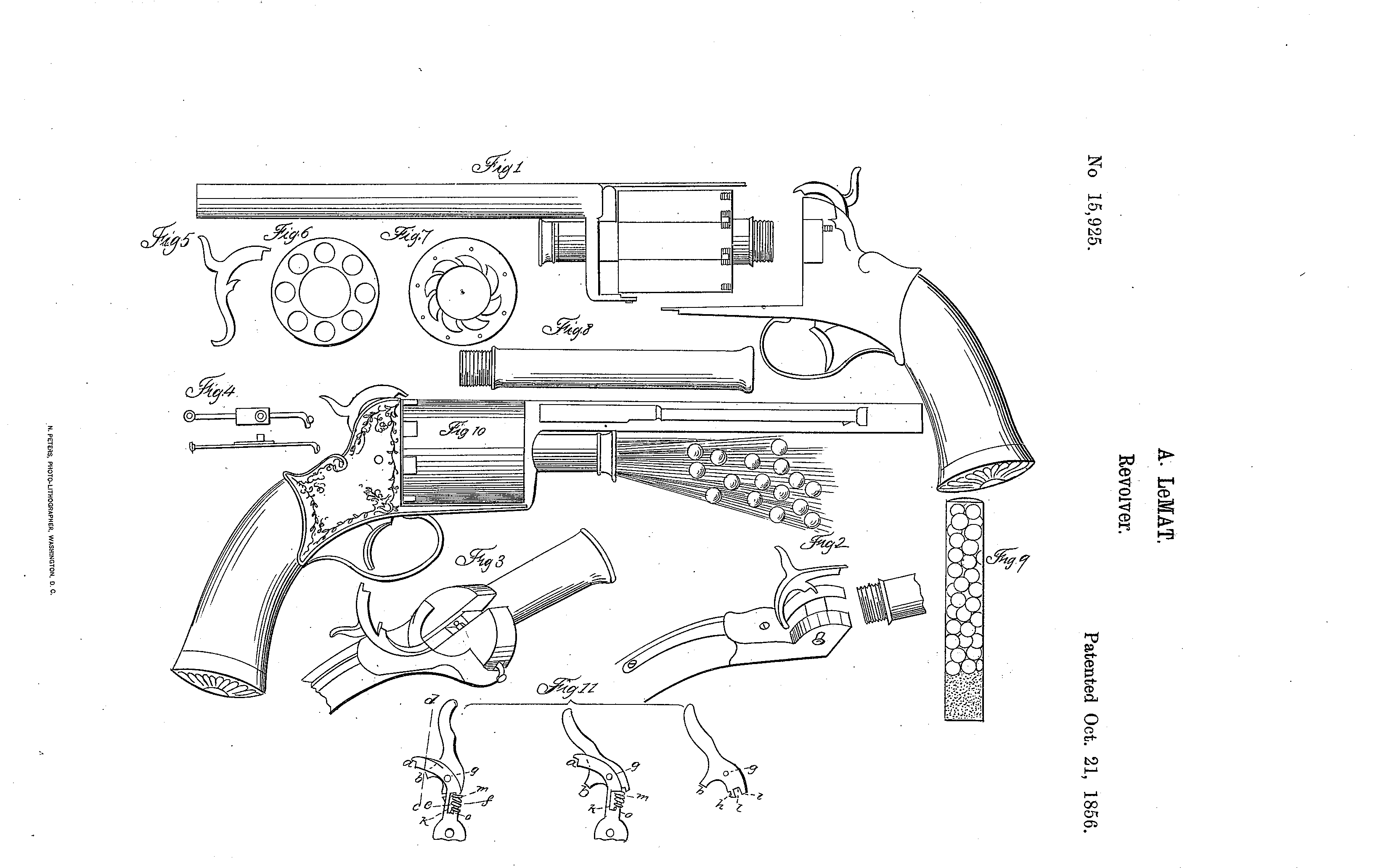 US Patent drawing of the LeMat revolver. Cropped and rotated.